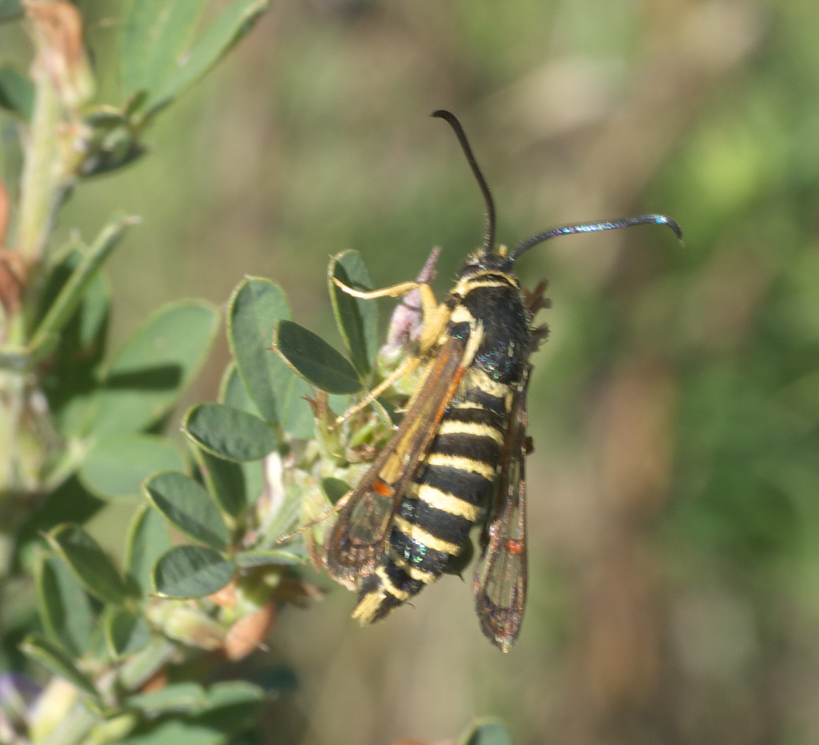 Synanthedon rileyana, Riley's clearwing, ID Confidence: 87